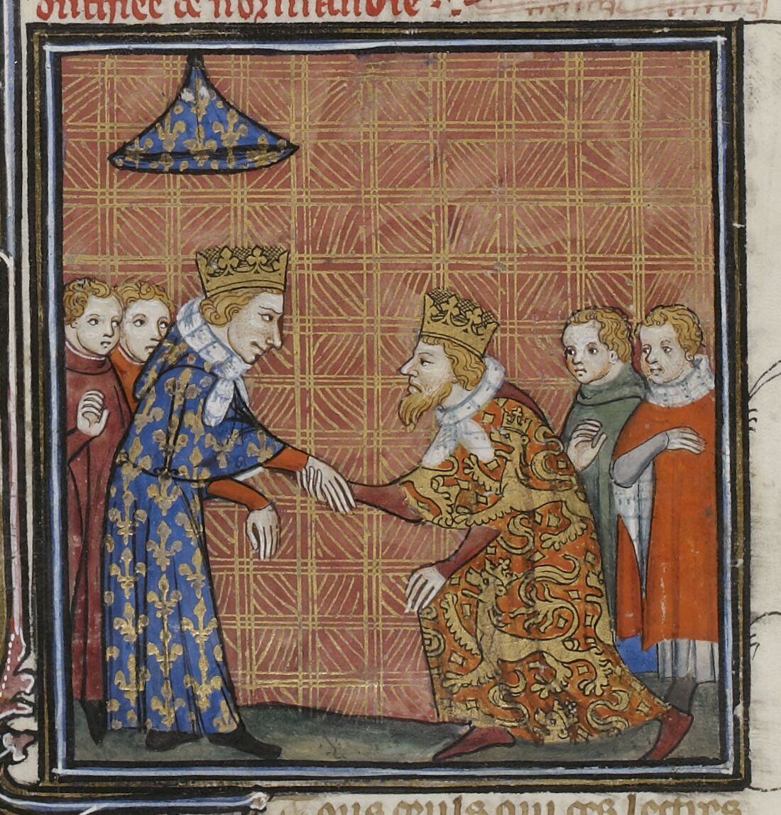 Henry III does homage to Saint Louis